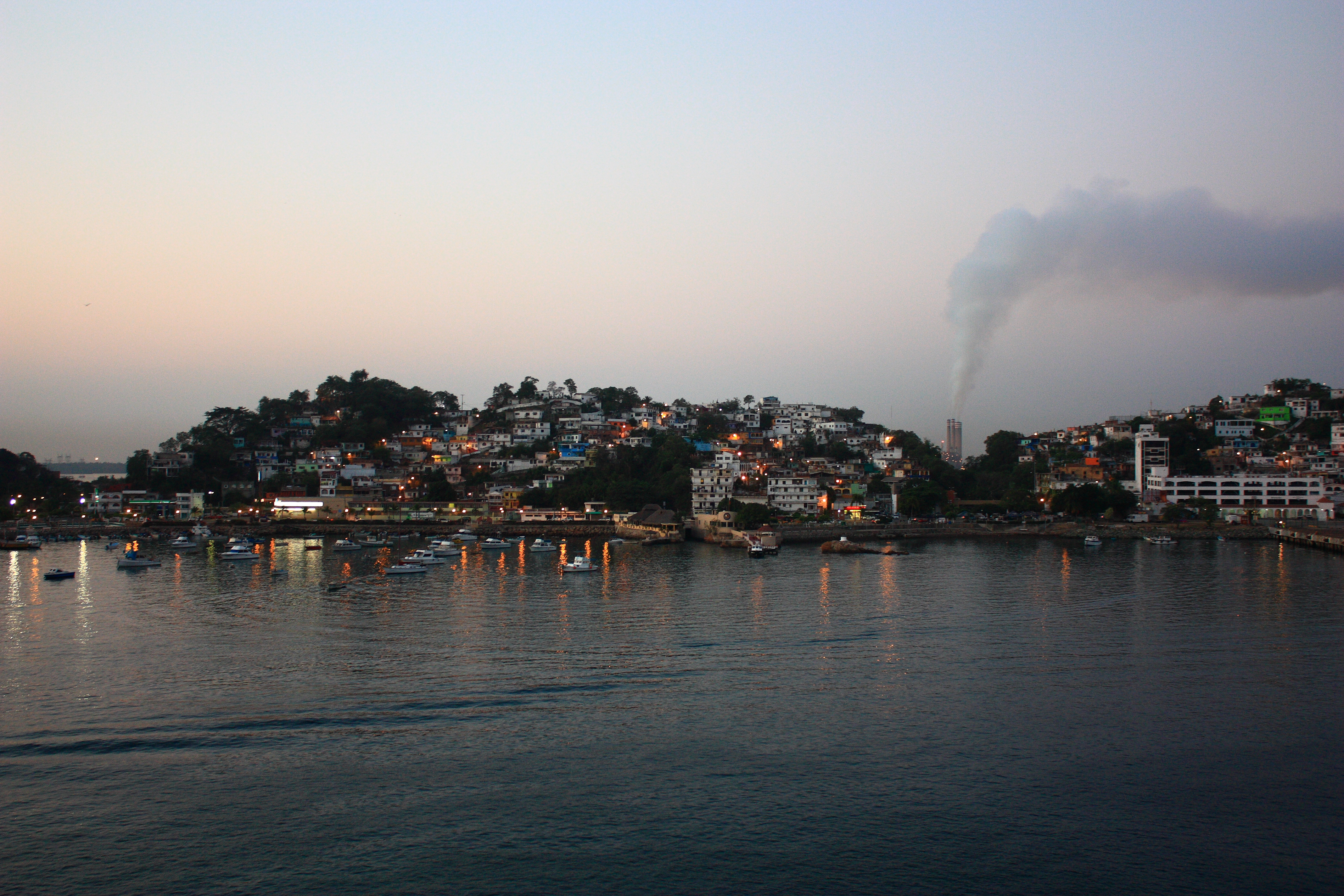 Manzanillo harbor — Colima state, western Mexico.